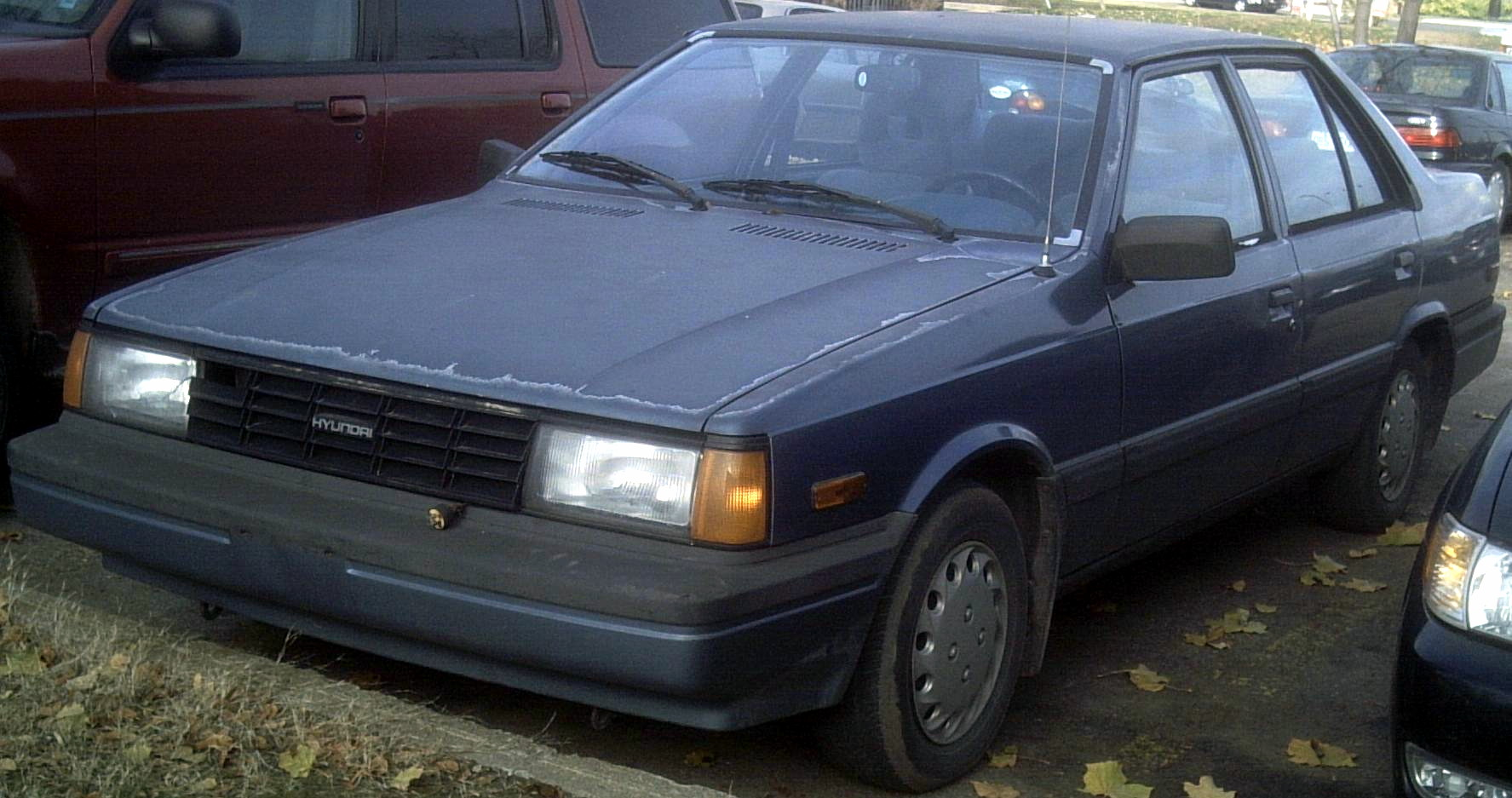 1983-1987 Hyundai Stellar photographed in Montreal, Quebec, Canada.